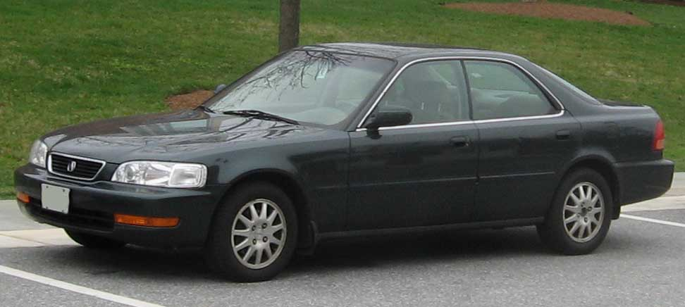 1996-1998 Acura TL photographed in College Park, Maryland, USA.